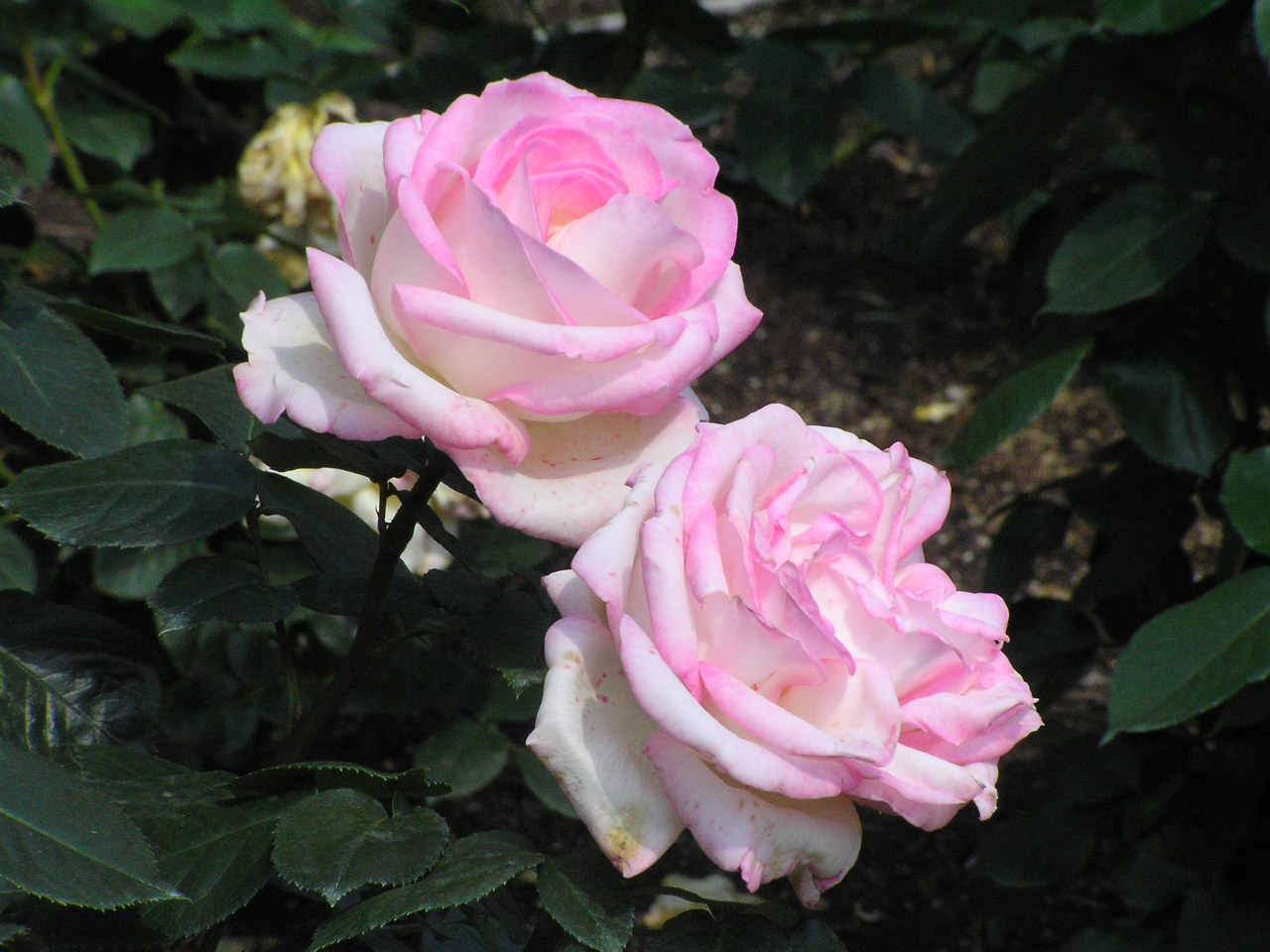 Kitaharima leisure park north of the village, Rose 'Princess de Monaco'